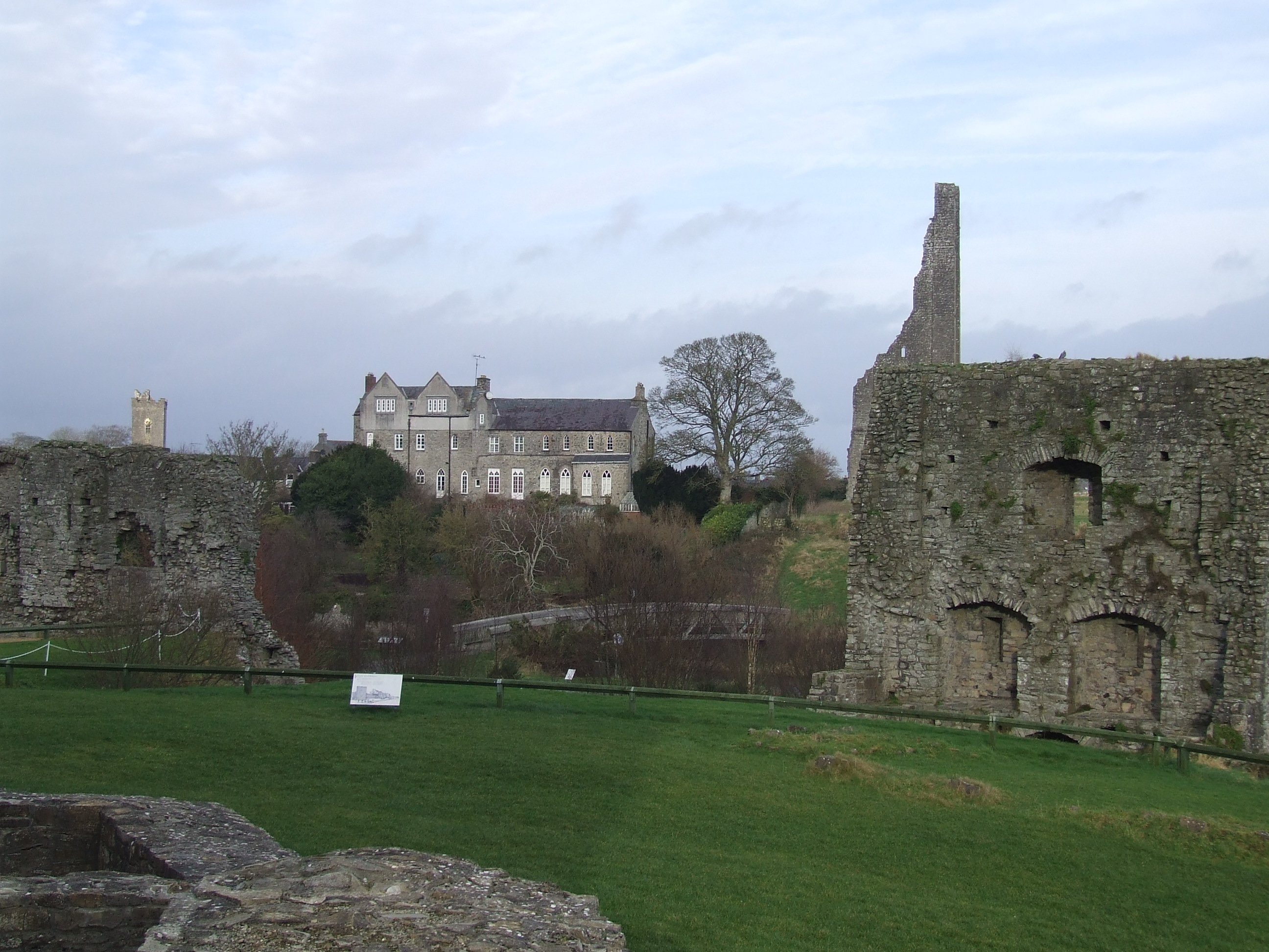 A view of Talbot Castle, Abbey Lane on the north bank of the River Boyne from the court of Trim Castle. A new bridge over the Boyne by French Lane is visible in centre. In the foreground are fore buildings of Trim Castle court. The ruins of the Royal Mint are on the right. The Solar or domestic quarters are on the left. To the top right, the bell tower of St Patrick's cathedral church is just visible.